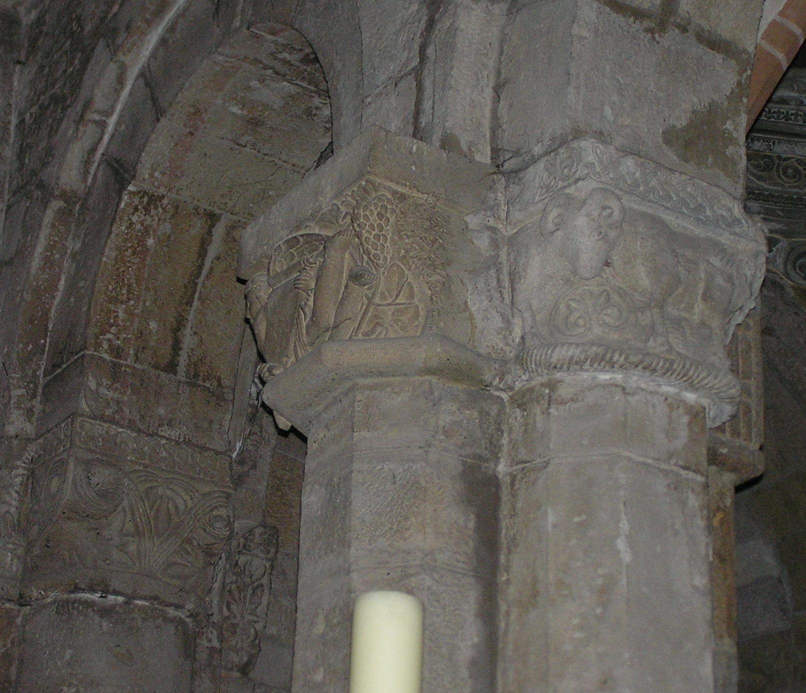 capitals in castell'arquato collegiata